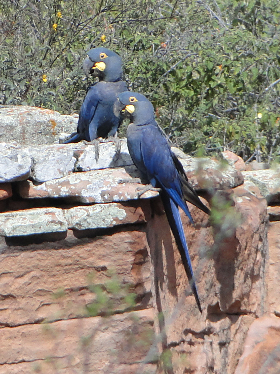 Two Lear's Macaws at Estação Biológica de Canudos, Bahia, Brazil.